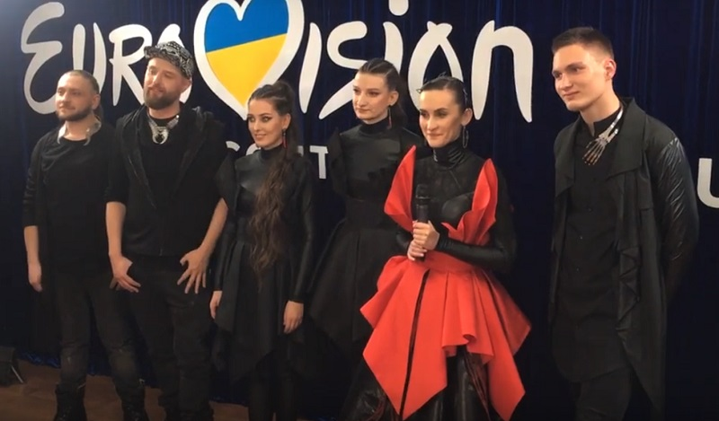 Ukrainian band Go_A at the Ukraine's National Selection Vidbir for Eurovision 2020